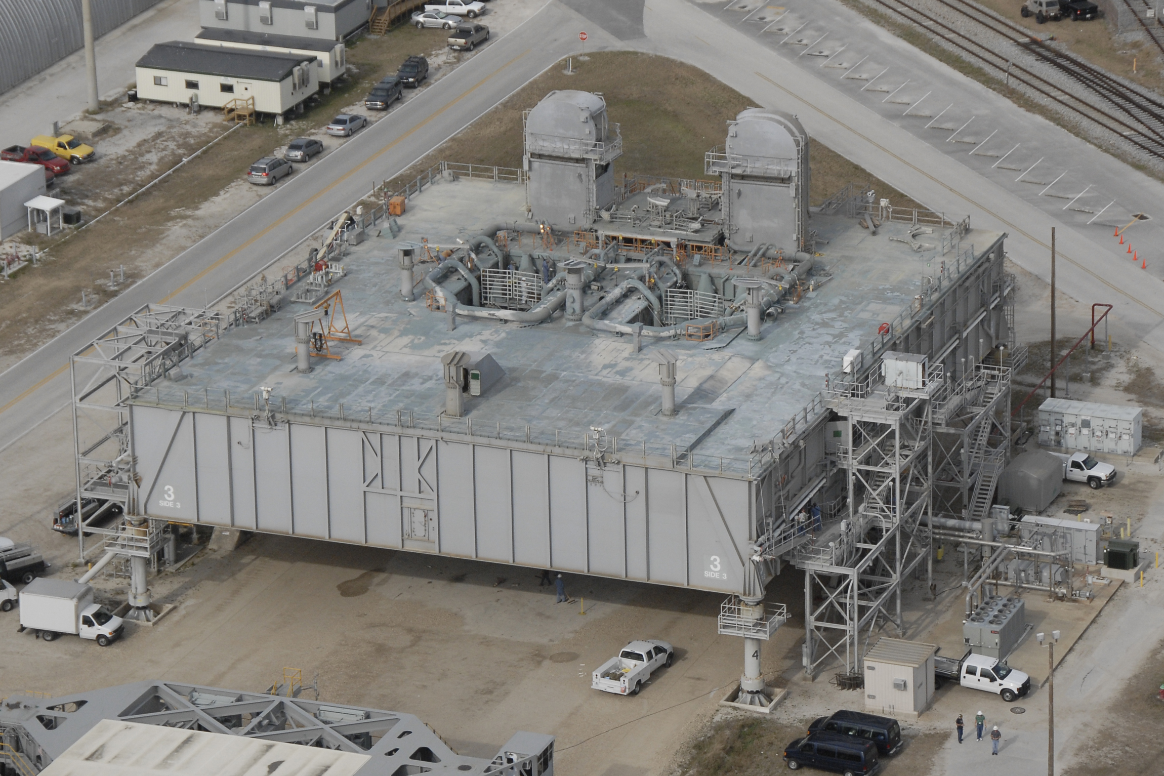 An aerial view of Mobile Launcher Platform #3 (Shuttle-era configuration) parked in the Launch Complex 39 area by the Vehicle Assembly Building. Scaffolding has been erected on either side for maintenance. One of the crawler-transporters can be seen at bottom left.